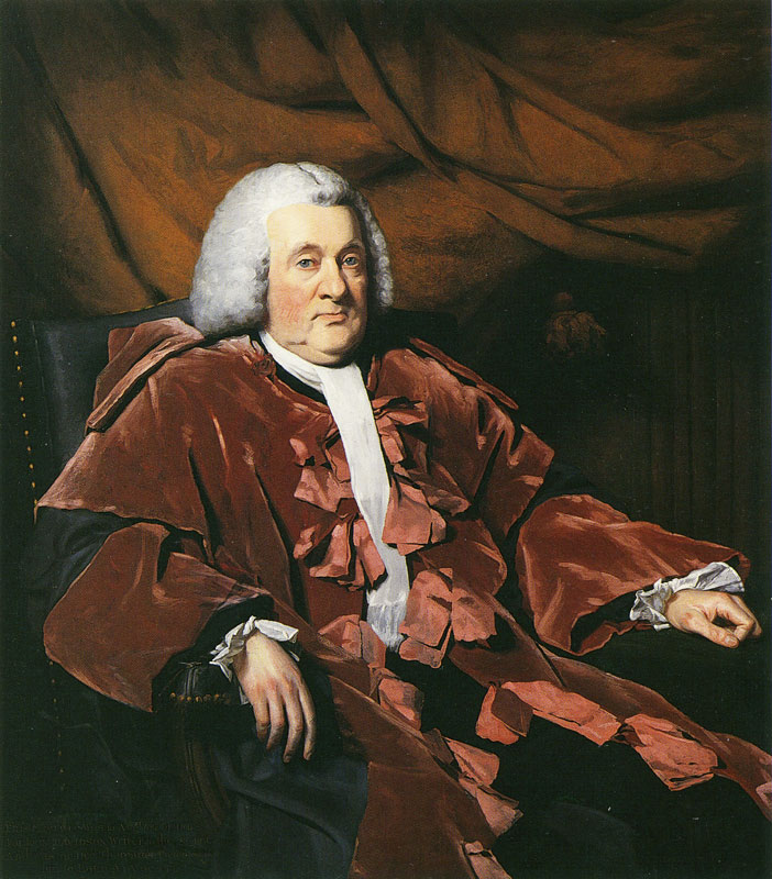 Portrait of Robert Dundas of Arniston, the younger.